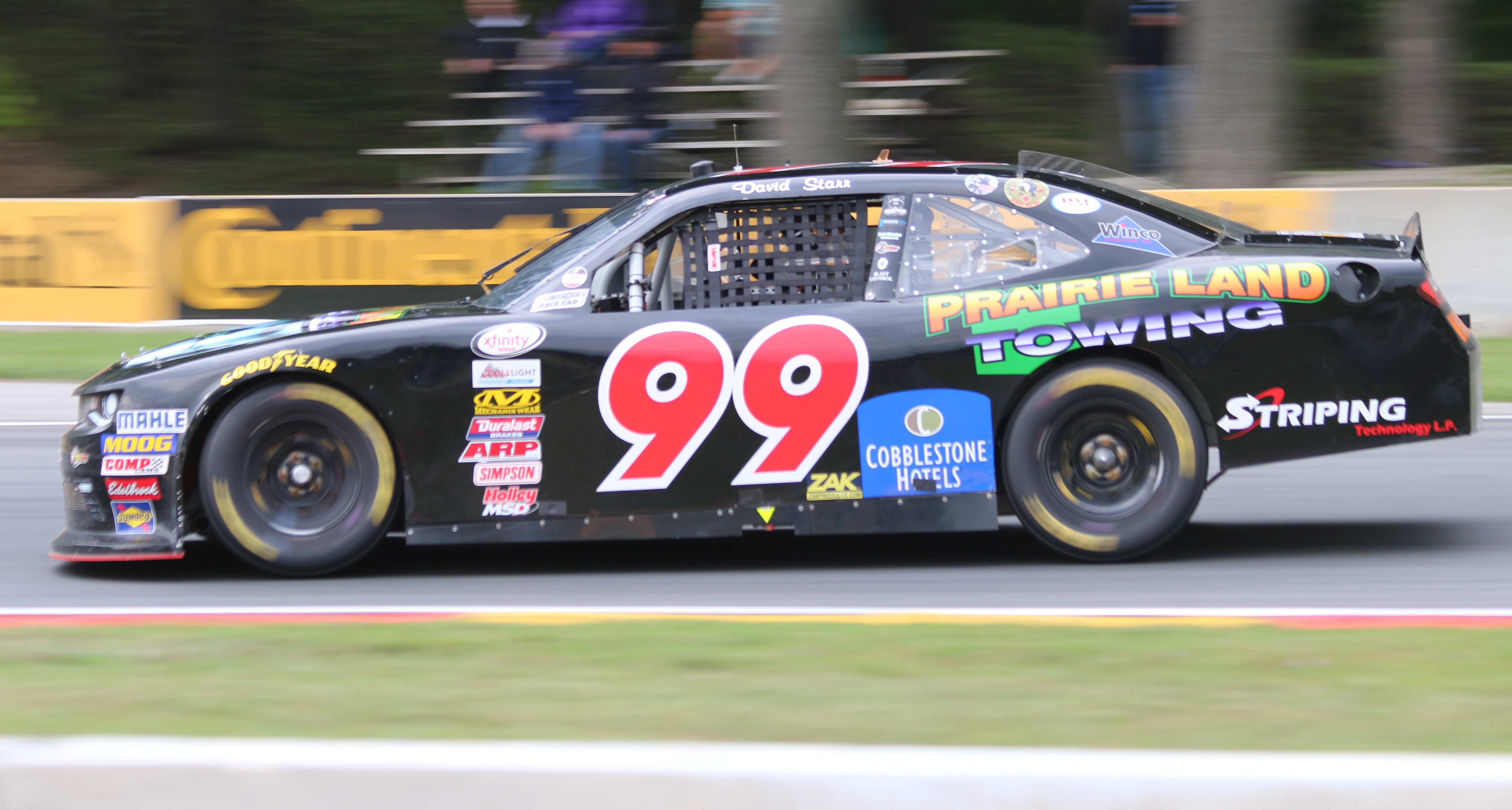 The Chevrolet Camaro of David Starr at the NASCAR Xfinity Series Johnsonville 180.